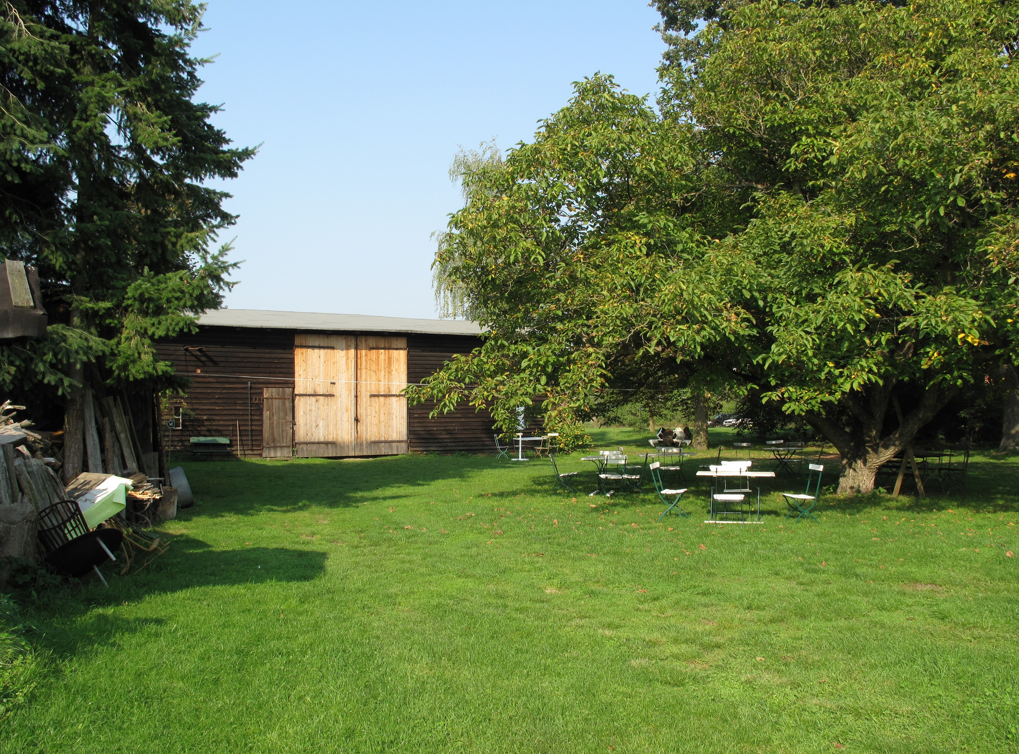 Barn of the listed former forestry „Alte Försterei Briescht“. Briescht is a part of the municipality Tauche in the District Oder-Spree, Brandenburg, Germany. Listed are: Forestry with forester's lodge, horse stable, two barns and earth cellar. The forestry was built around 1900. The operating was finished in 1990. Since 2009 privatized, the „Alte Försterei Briescht“ is a place for arts, culture and recreation, today.